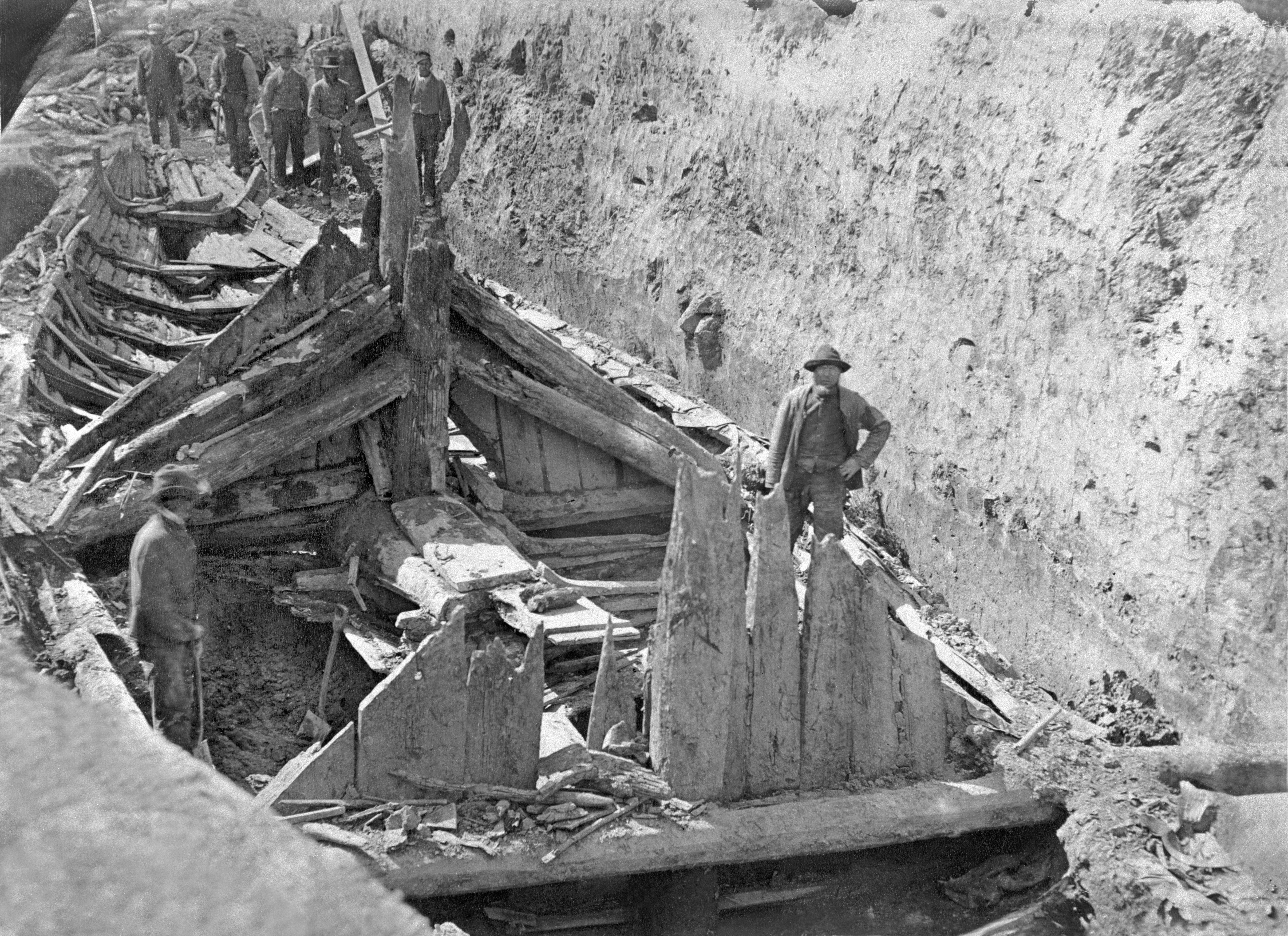 From the archaeological excavations of the Gokstad burial mound near Sandefjord (120 km southwest of Oslo, Norway) in 1880. The find consisted of the Gokstad Viking Ship and numerous artefacts. The ship are on exhibition at The Viking Ship Museum ("Vikingskipshuset på Bygdøy") in Oslo. Photo copied from the collections of The Museum of Cultural History in Oslo ("Kulturhistorisk museum").